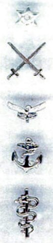 Ribbon bar emblem of the Bar and Arm of the Service insignia for the ribbon of the iPhrothiya yeSiliva - Silver Protea, post-nominal letters PS, awarded to persons who have distinguished themselves by outstanding leadership or outstanding meritorious service and particular devotion to duty